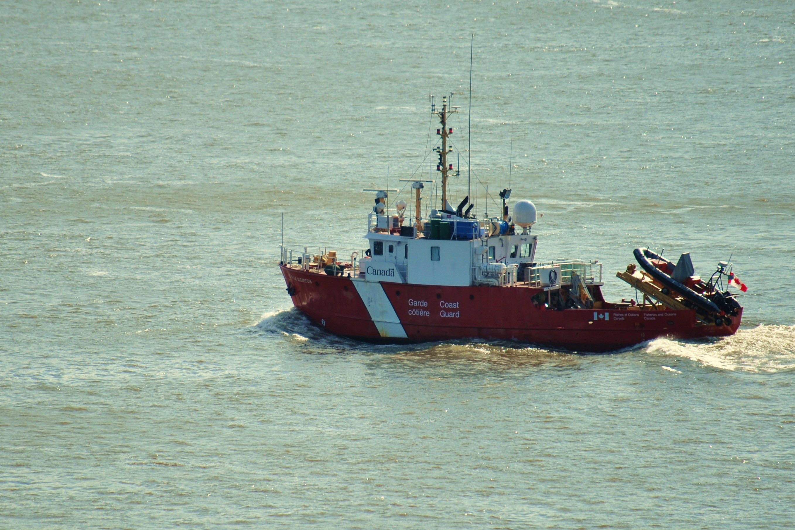 This is the picture of the canadian coast guard ship NGCC E.P. LE QUÉBÉCOIS at sea between Québec and Lévis. For more info on this ship, (french)